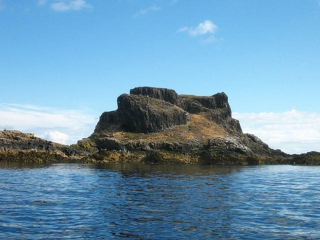 Fidra - 'Castle Tarbet' A rocky arm projects towards the SE of the island and it terminates in this flat-topped columnar rock that rises 40ft above high water mark. On the summit there are no visible remains of buildings, though there are suggestions of foundations of a castle that was known here in 1220 and 1621 as the 'old castle' of Eldbottle (Fidra used to be known as Eldbottle).